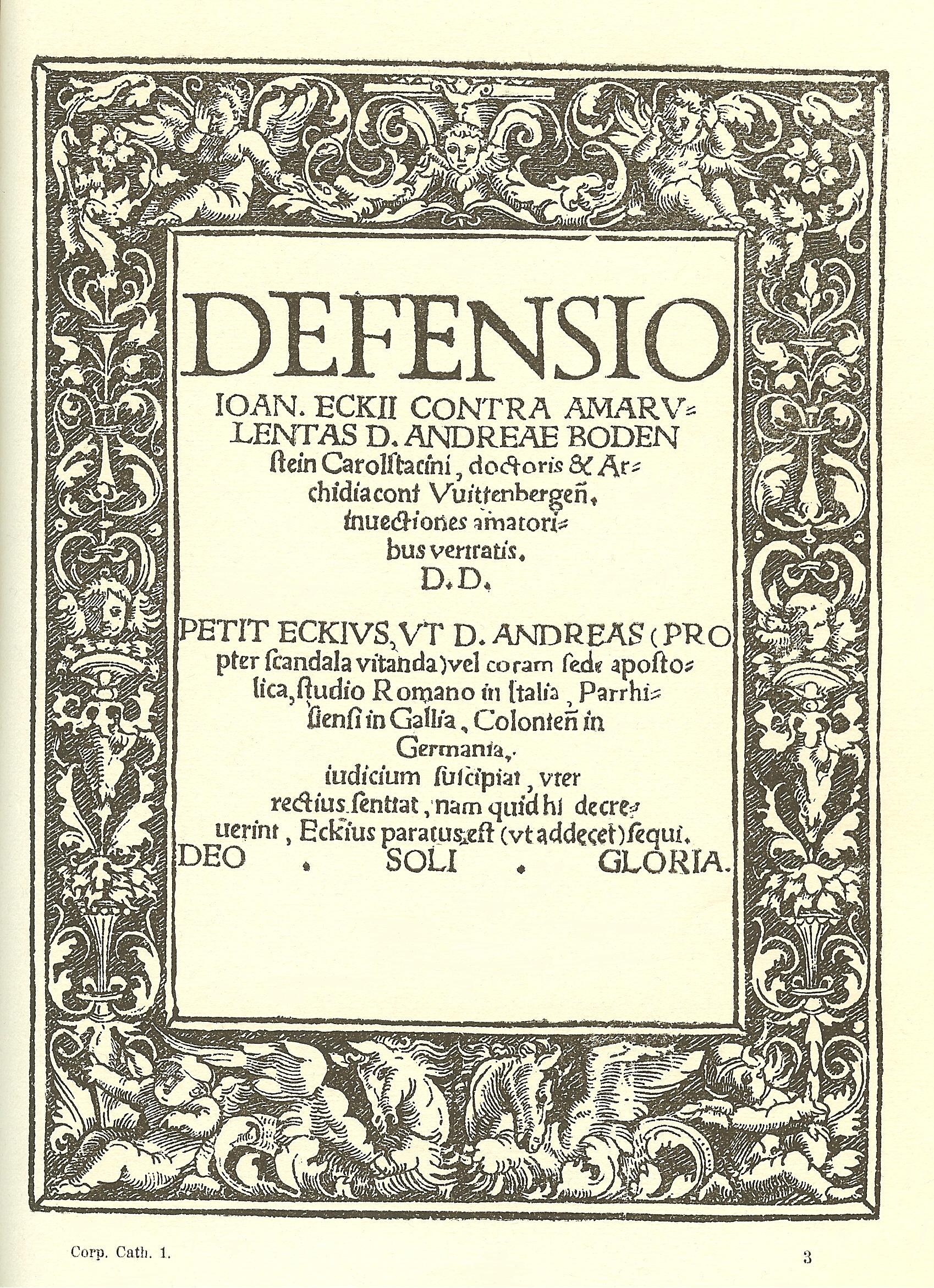 Title page (not frontispiece!) from Defensio contra amarulentas D. Andreae Bodenstein Carolstatini invectiones (1518), by Johannes Eck.